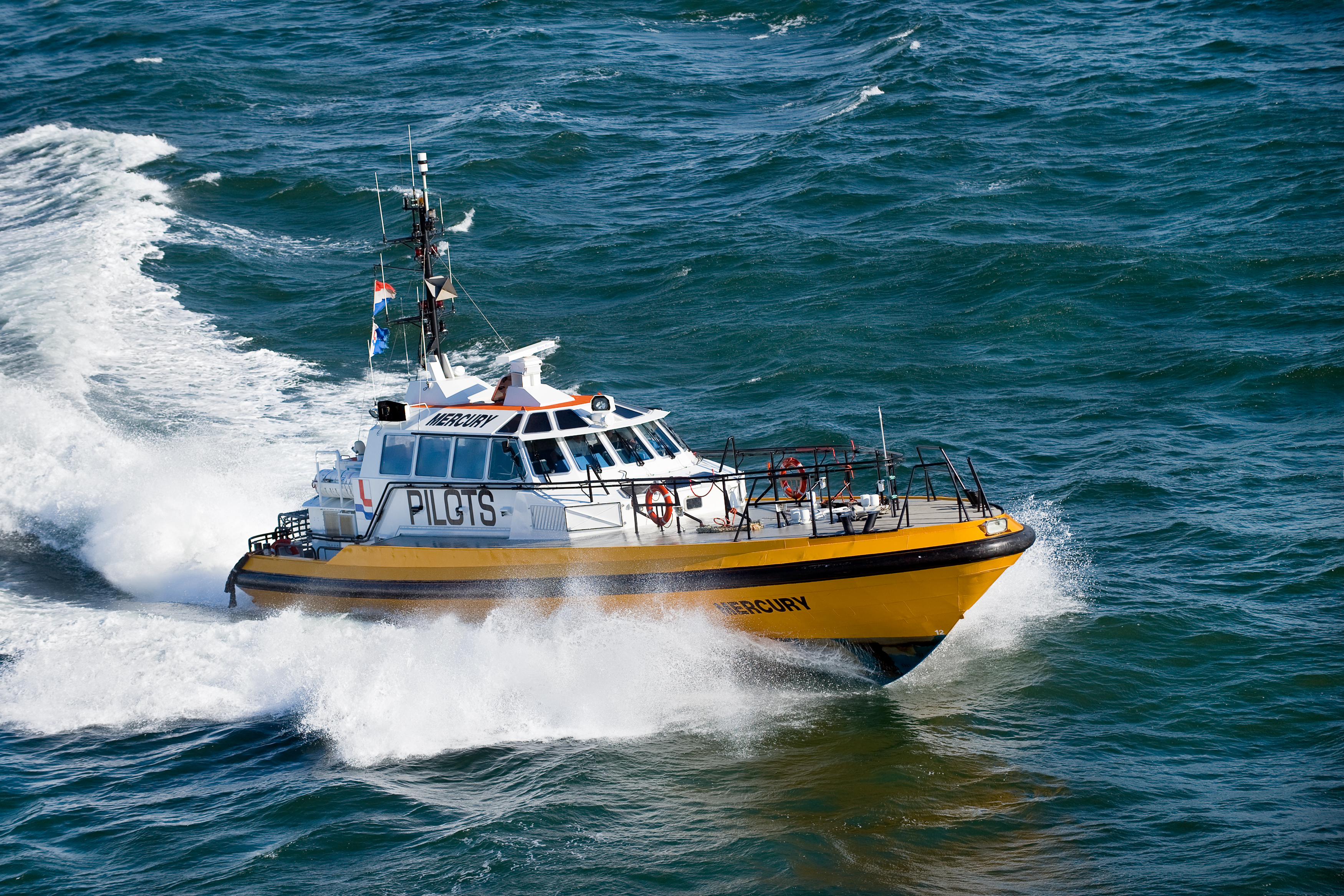 Pilot boat from port Ijmuiden, Netherlands.